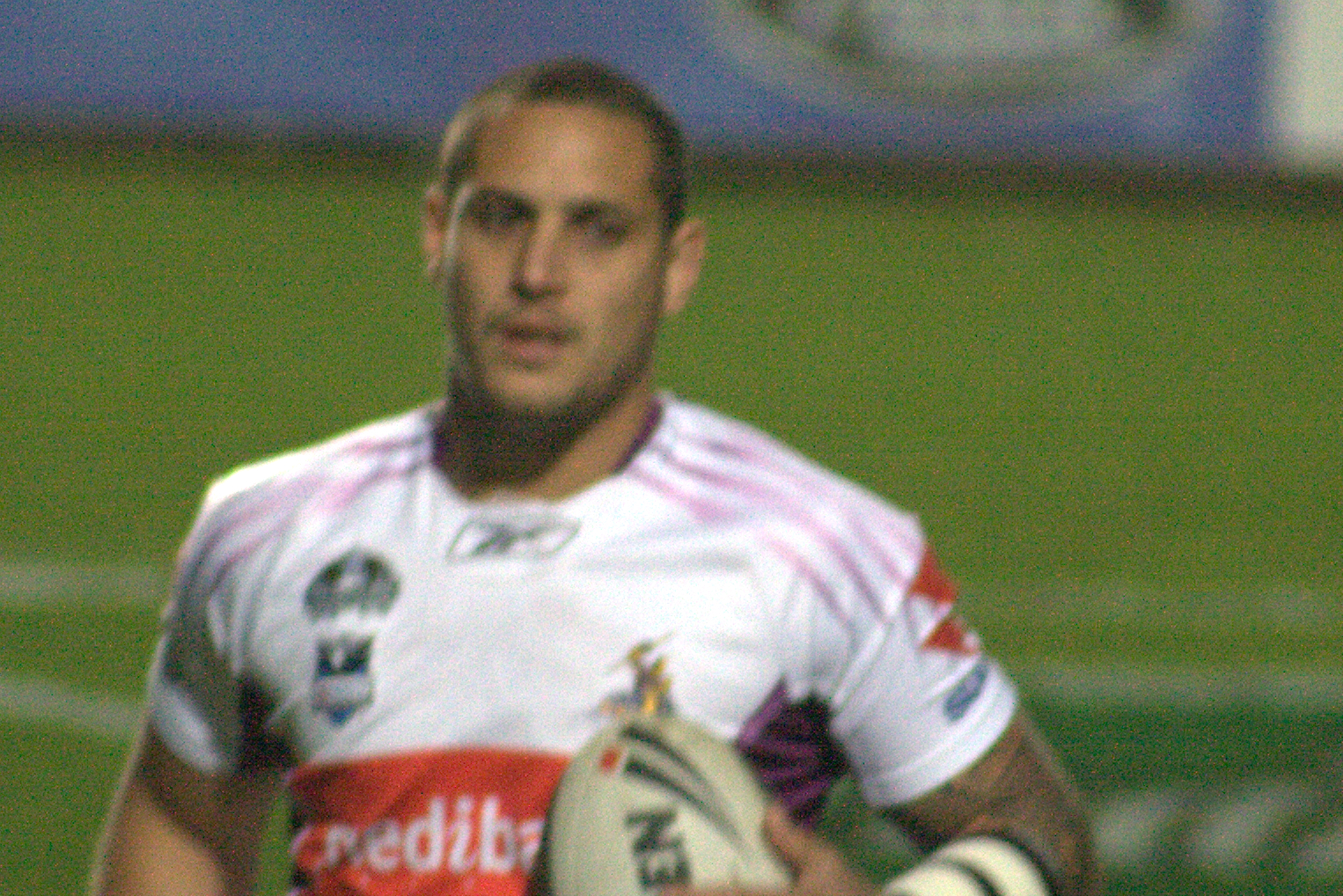 pic of Jeremy Smith